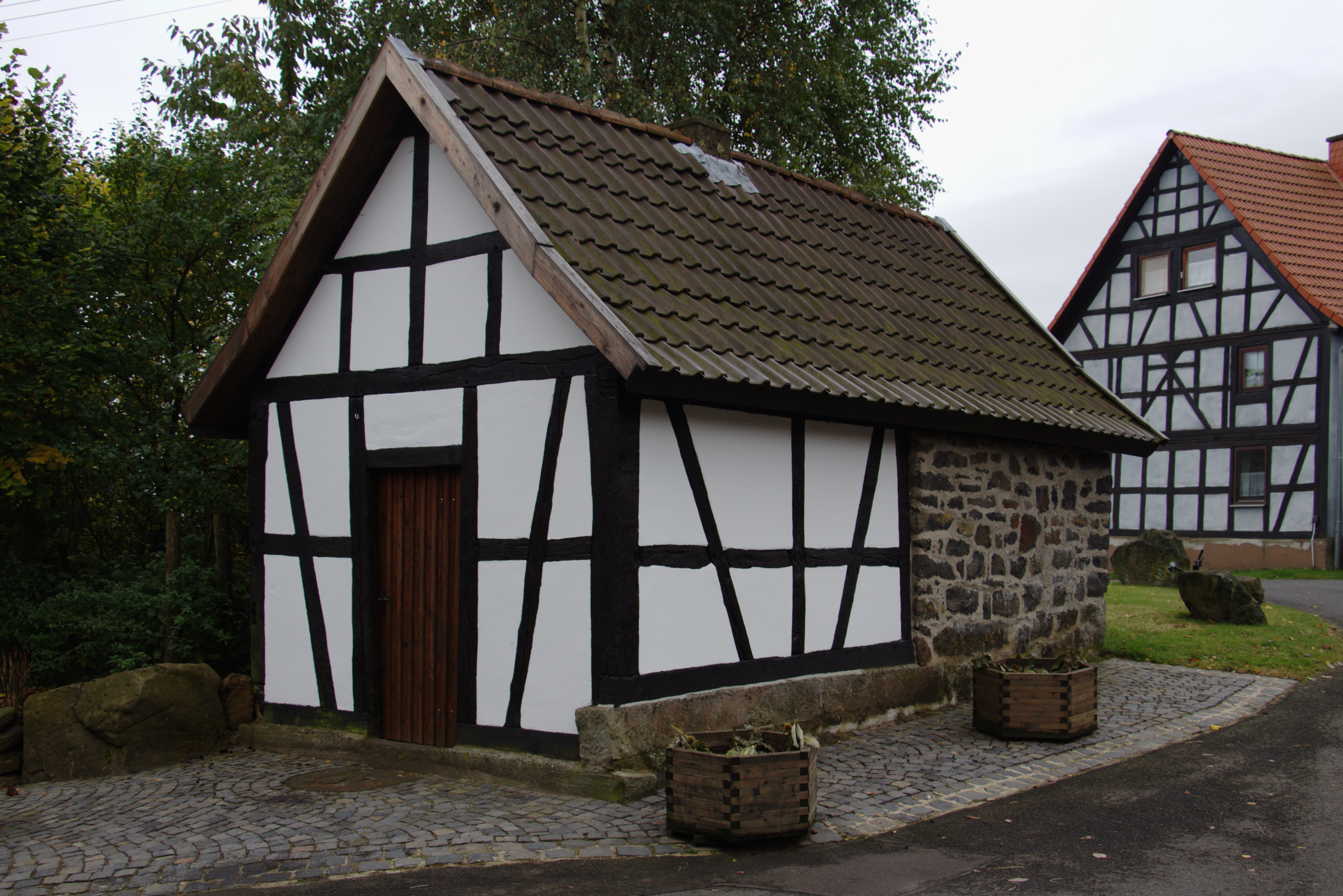 Half-timbered building in Birstein, Voelzberg, Am Erlenborn - Salzbachstrasse, Hesse, Germany